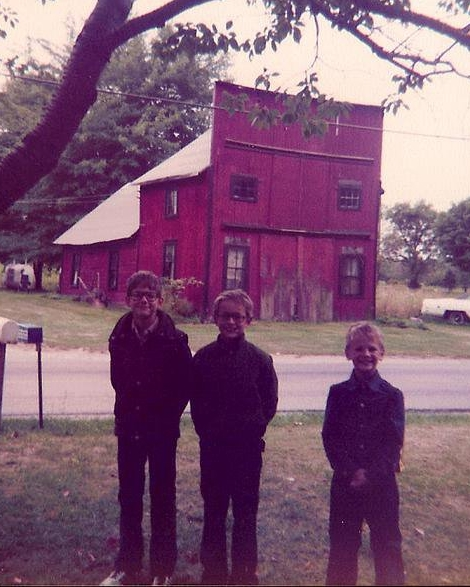 Author Lorin Morgan-Richards (on right) as a child with his brothers in Beebetown, Ohio. The old blacksmith shop (no longer standing) is seen in the background.